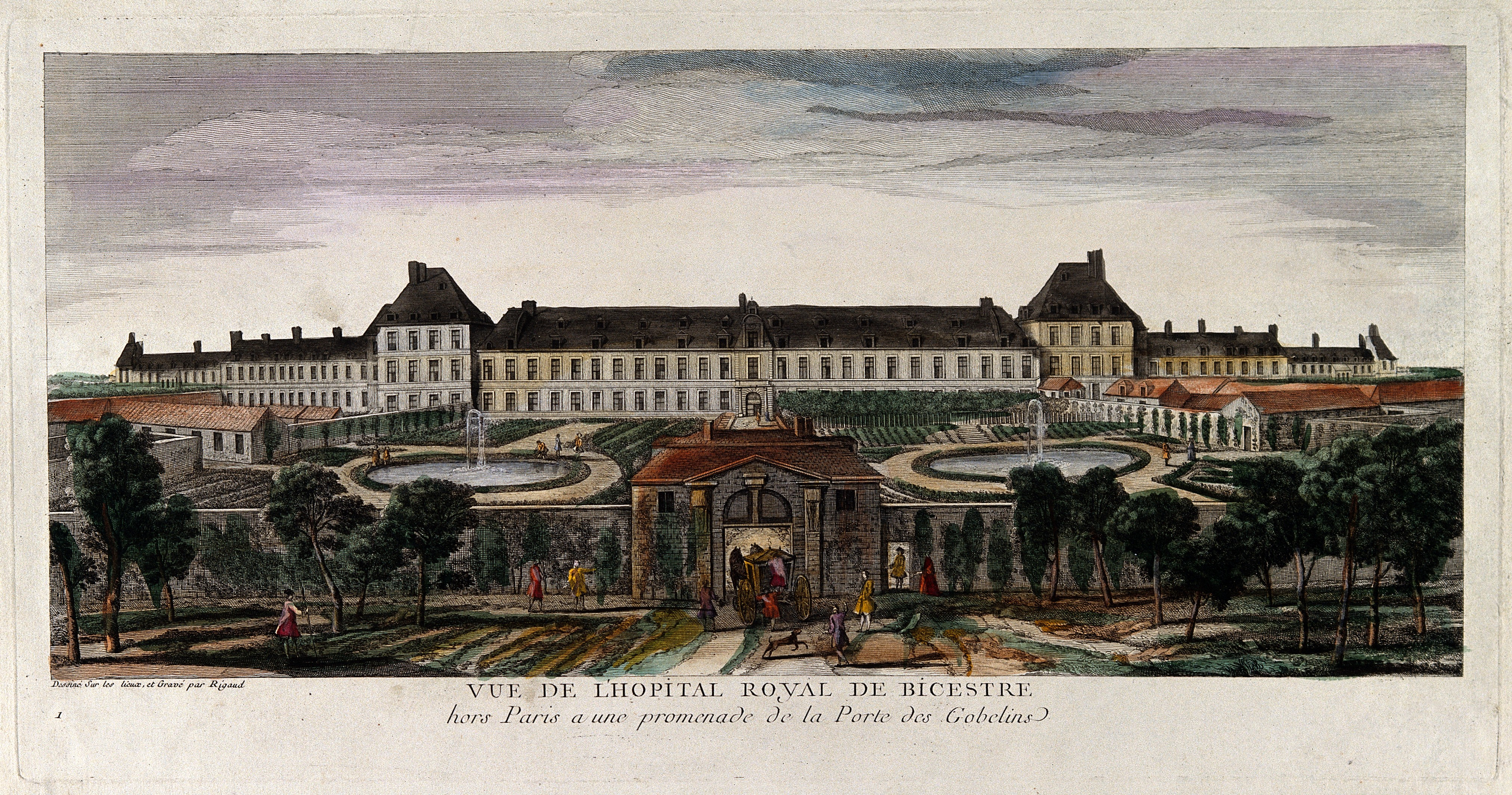 Hôpital Royal de Bicêtre, Paris: panoramic view with gardens. Coloured etching by J. Rigaud after himself. Iconographic Collections Keywords: Hopîtal Royal de Bicêtre (Paris, France); Jacques Rigaud